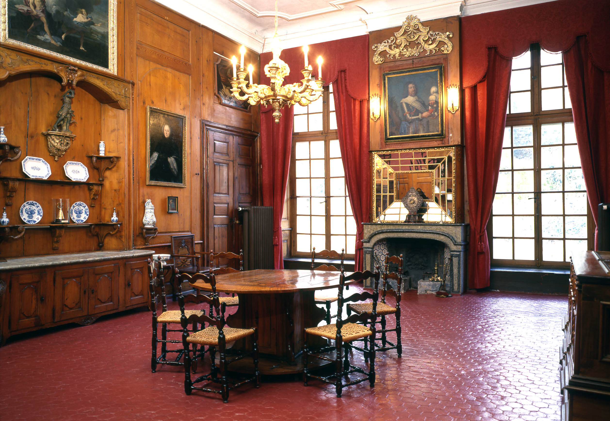 The diningroom of the former summer residence Blumenstein in Solothurn, Switzerland, today the historical museum of the city.